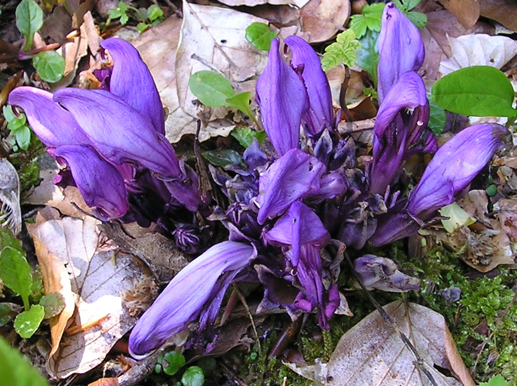 Lathraea clandestina (Purple Toothwort) in the French Pyrenees.